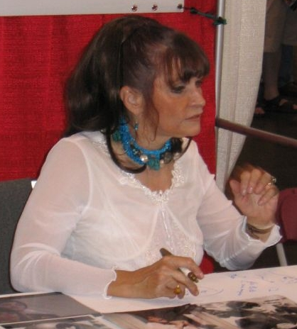 Actress Margot Kidder at the 2005 Canadian National Expo.